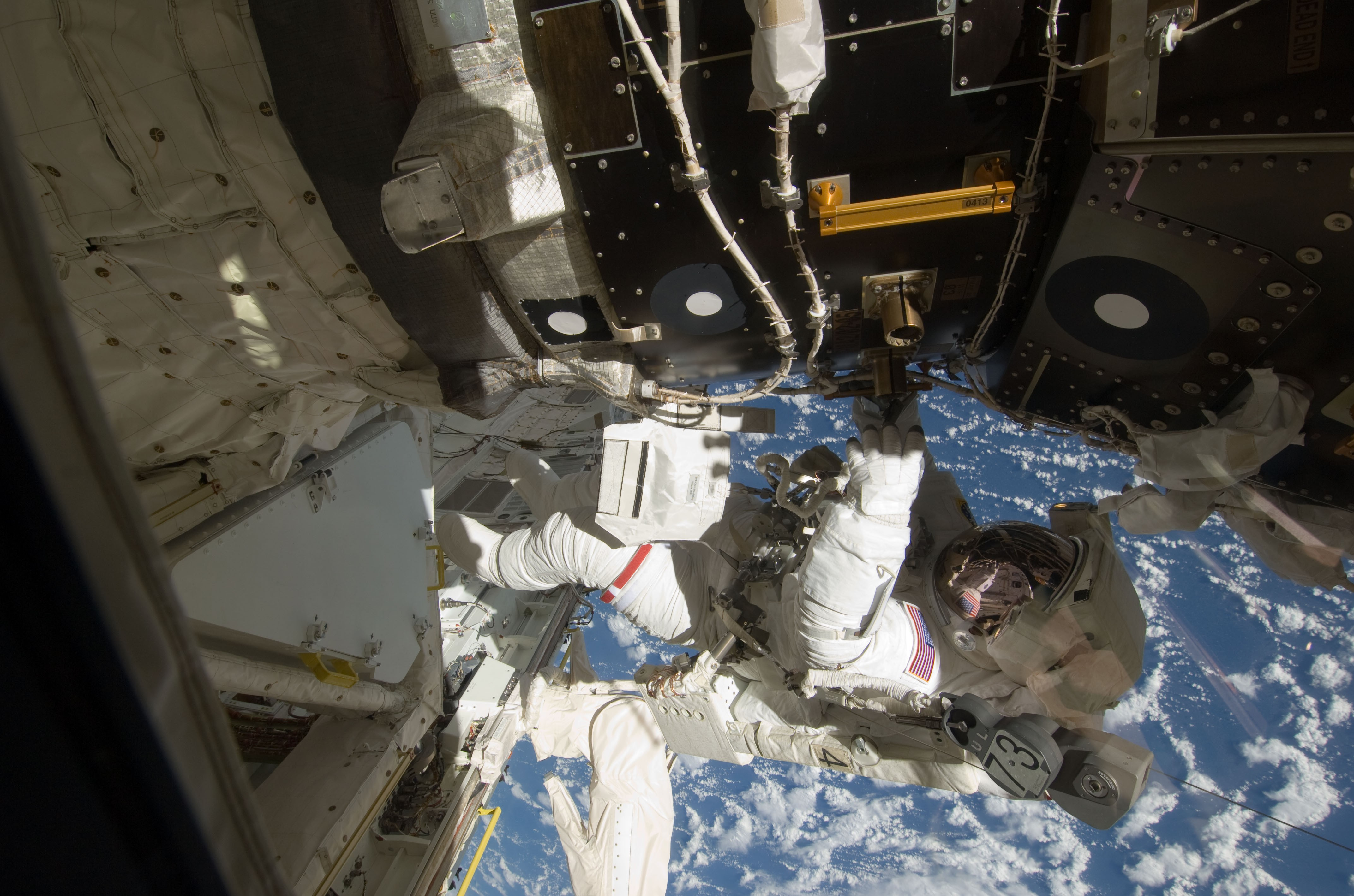 This is one of a series of digital still images showing astronaut Tom Marshburn performing his first spacewalk and the Endeavour crew's second of the scheduled five overall in a little more than a week to continue work on the International Space Station. Astronauts Marshburn and Dave Wolf (out of frame), both mission specialists, successfully transferred a spare KU-band antenna to long-term storage on the space station, along with a backup coolant system pump module and a spare drive motor for the station's robot arm transporter. Installation of a television camera on the Japanese Exposed Facility experiment platform was deferred to a later spacewalk.